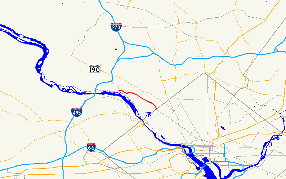 Map of Maryland 396